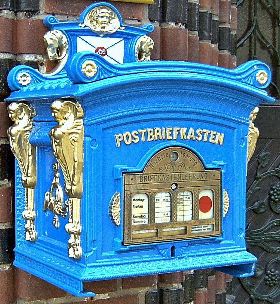 Historical letterbox at General Post Office at street corner Lindenstraße/Logenstraße in Frankfurt (Oder), Brandenburg, Germany